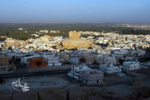 alqarah vill